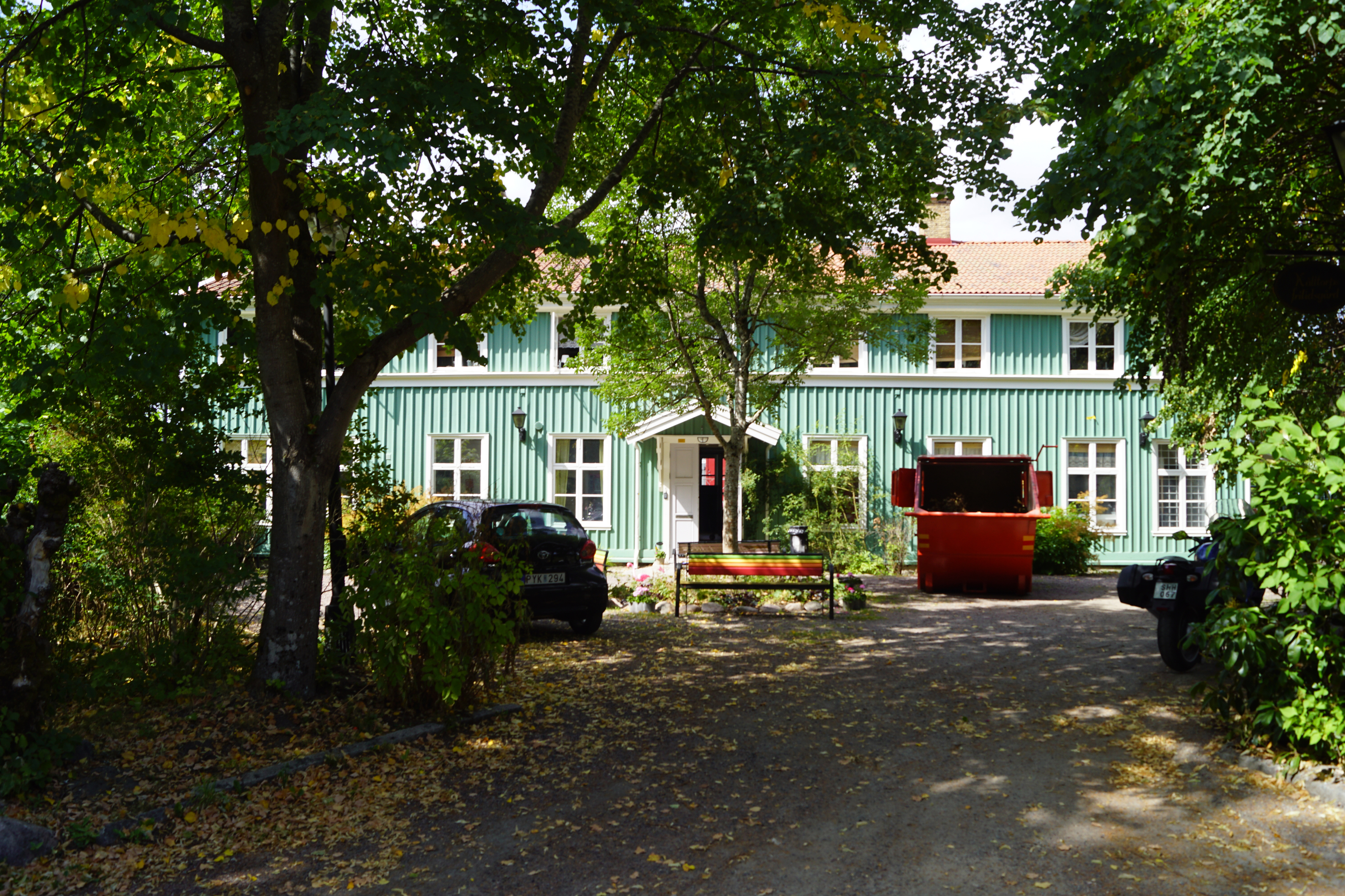 Kålltorp Mansion in Göteborg Municipality, Västra Götaland County, Sweden.